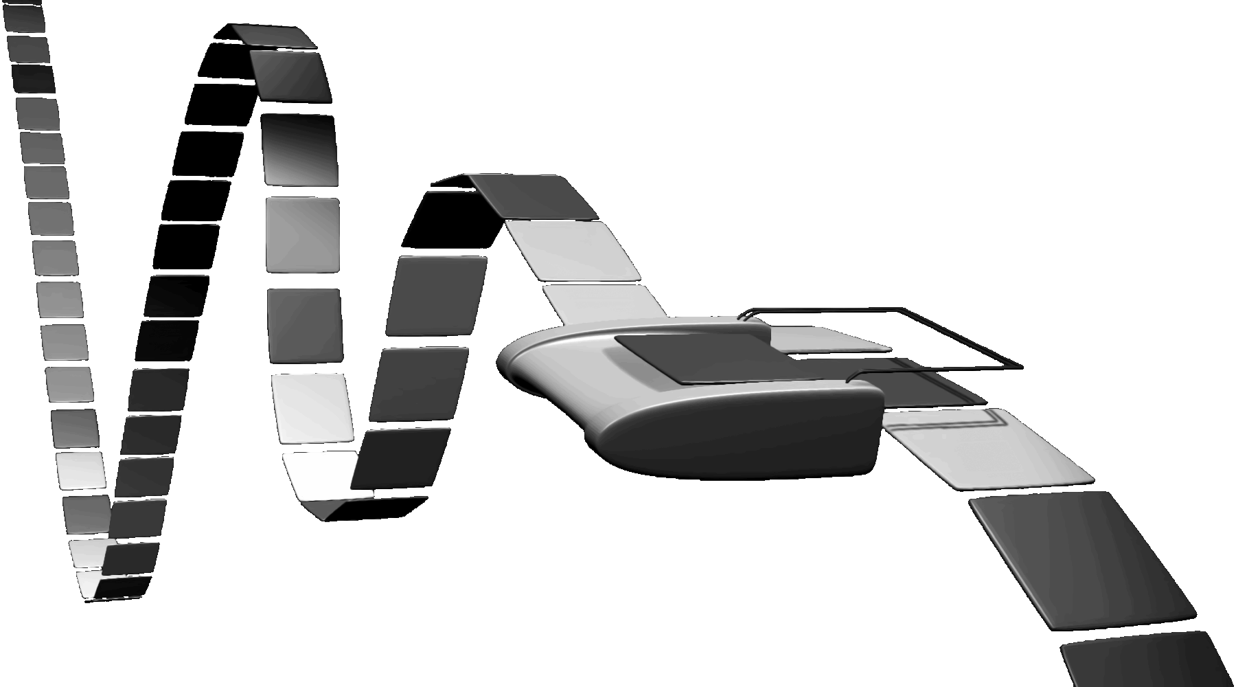 This picture was uploaded by Schadel on en.wikipedia as a GIF. I (Alessio Damato) have converted it in PNG and optimized with optipng, saving 20% space, and then I uploaded it here in Commons (the license allowed that). Made Schadel on contribution to CEUAMI in Universidad Autónoma Metropolitana, Mexico, free for use to anyone interested in Computer Science